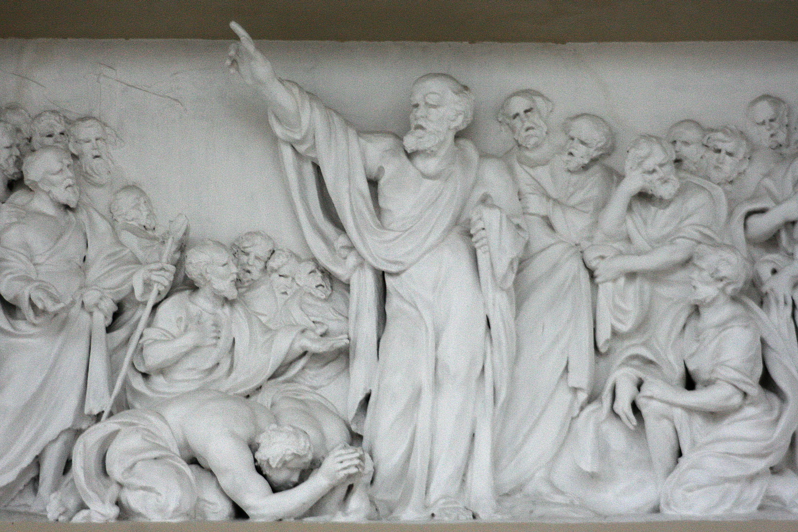 Fragment of Vilnius Cathedral freeze